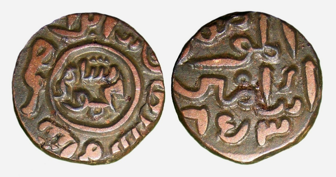 Coin of Mahmud Shah Dated AH853